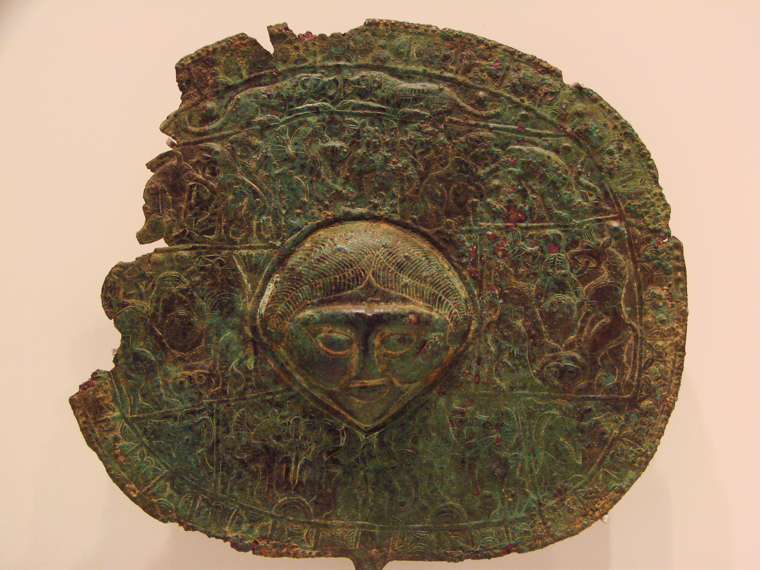 See upper.